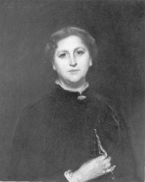 Mrs. Raphael Pumpelly (nee Eliza Shepard) (Black and white image) 1887 Berkshire Museum, Massachusetts Oil on canvas. 76.2 x 63.5 cm ( 30 x 25 in.) Accession Number: 23.14 Jpg: Local